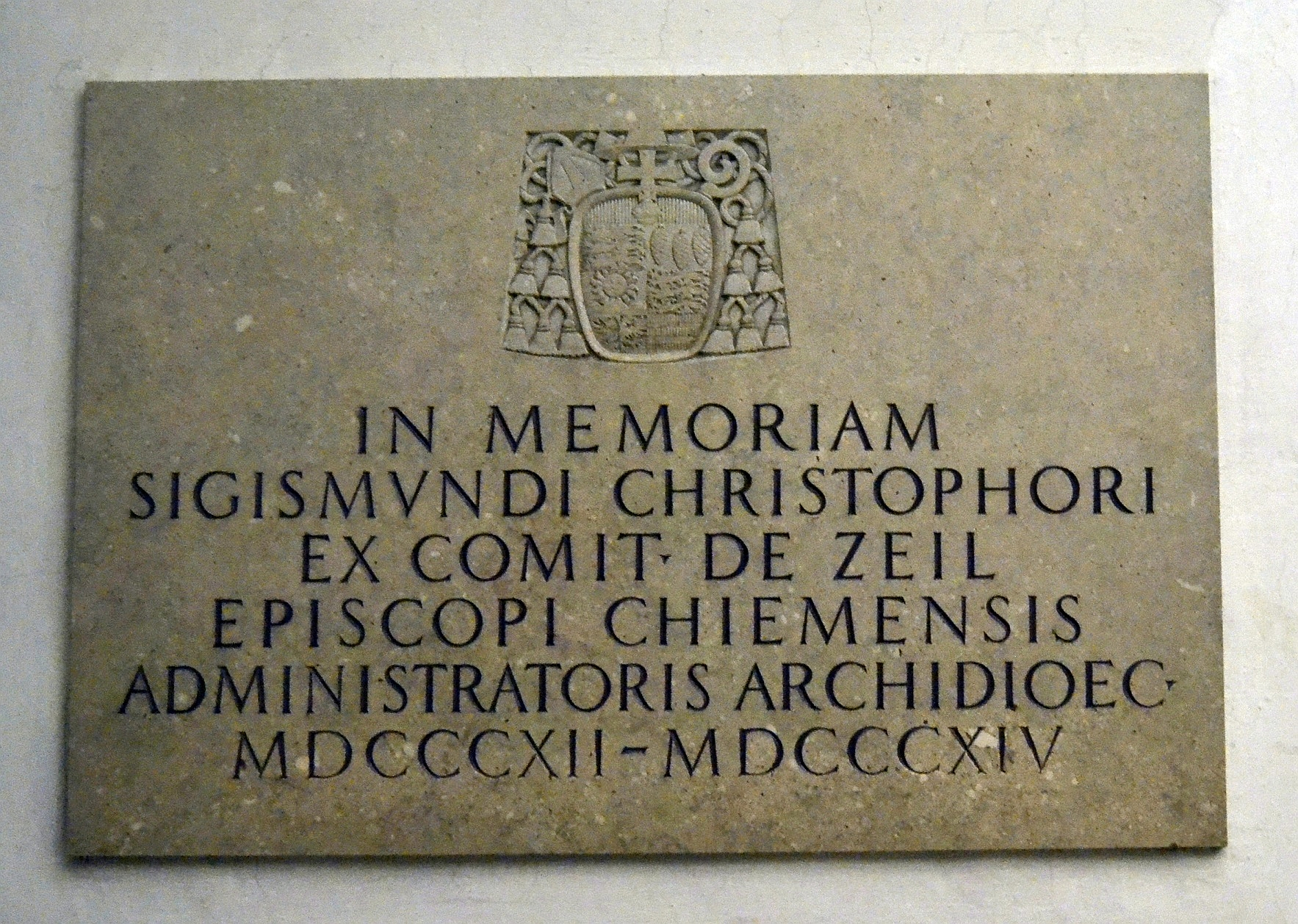 Salzburg Cathedral crypt, room 5: memorial tablet to Archbishop Sigmund Christoph von Waldburg-Zeil-Trauchburg